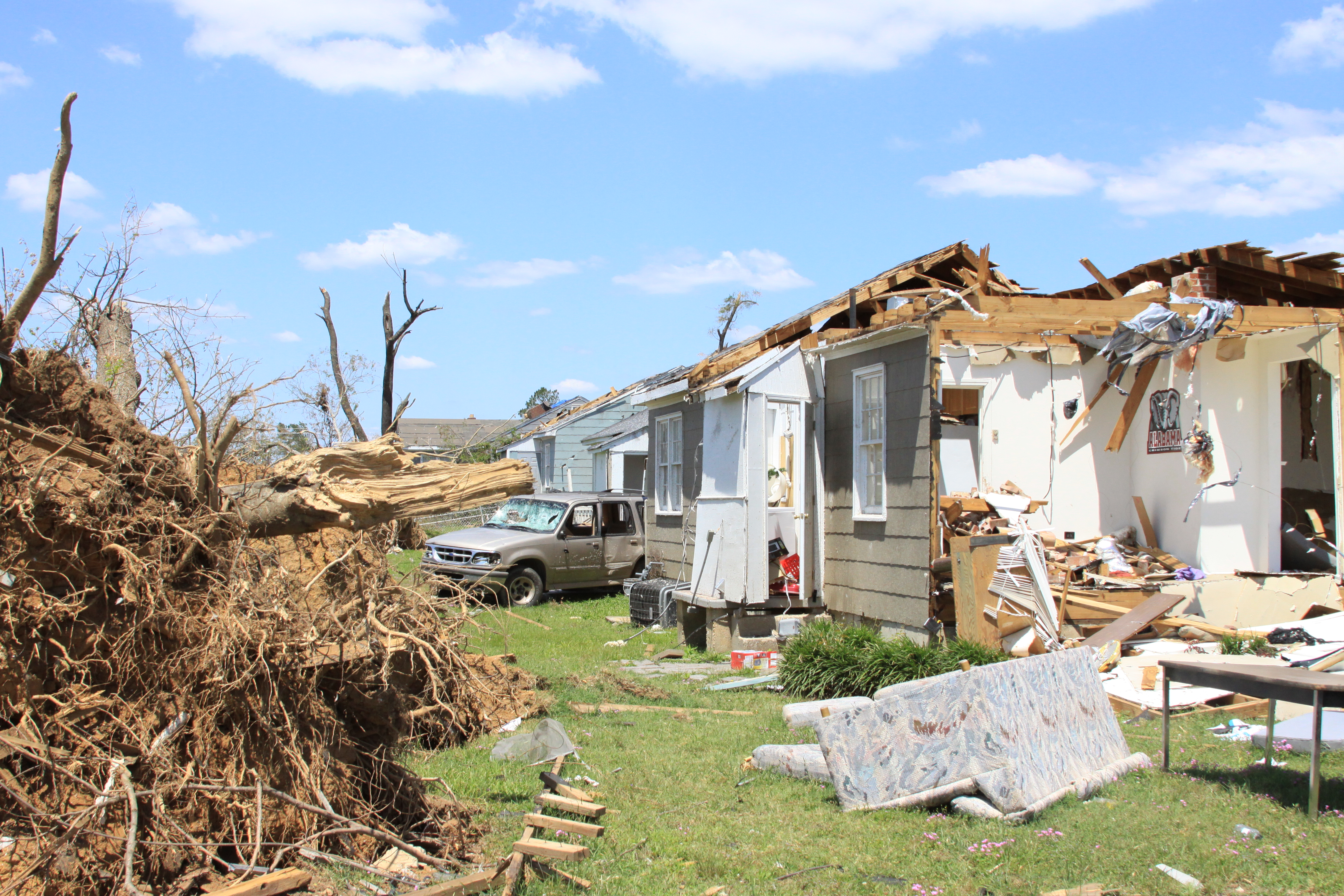 Houses in the Cedar Crest neighborhood that were ripped open by the 2011 Tuscaloosa Tornado.